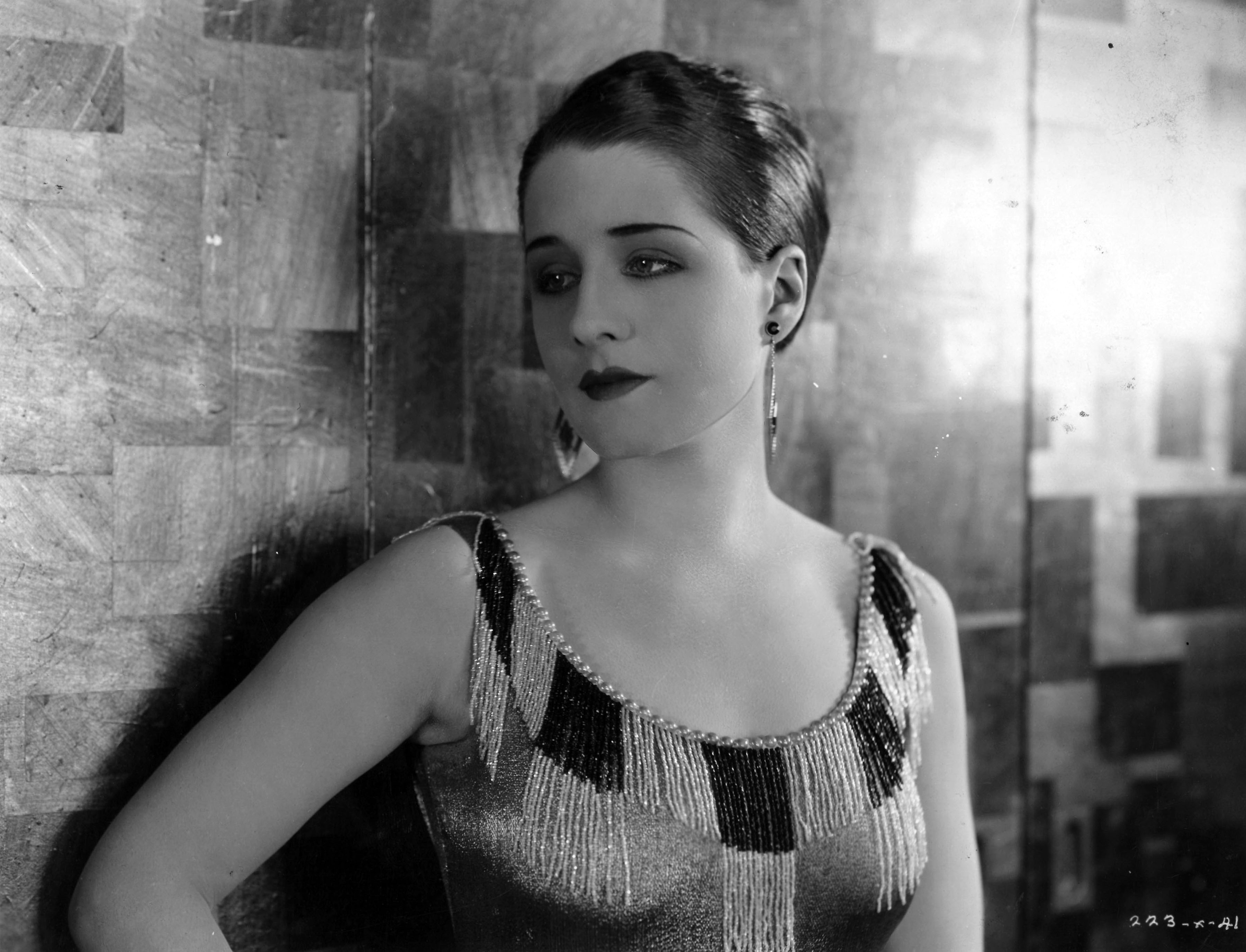 Portrait photograph of Norma Shearer from the 1925 film A Slave of Fashion. According to Ebay description "This comes from Shearer's personal collection, and was taken from a series of antique scrapbooks in which she kept a set of photographs from her early roles. Even for her, they were hard to come by, and many of the photographs in the scrapbooks seem to have been researched and rediscovered by Thalberg and Shearer after their marriage (... Measures 7 1/2" x 9 1/2").